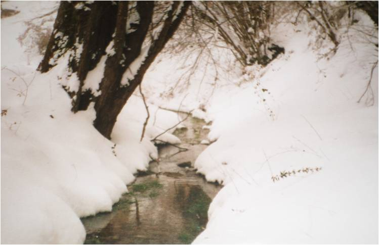 River of Maçana after the snowfall of the 08/03/2012.